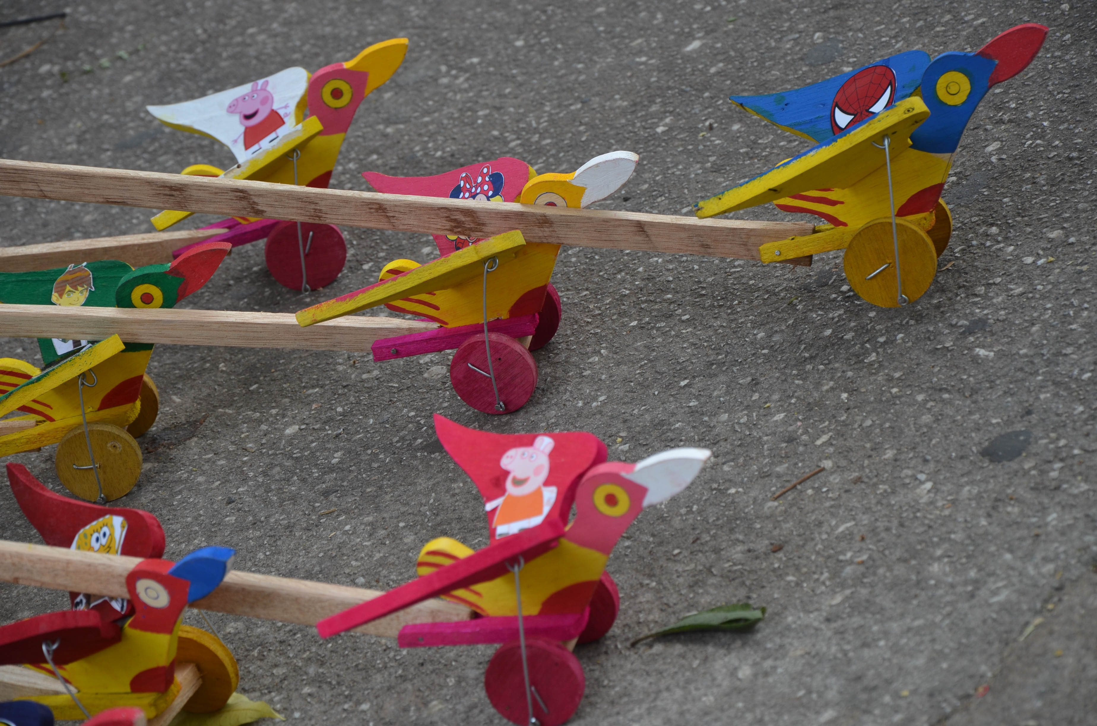 Wooden toy birds with wheels on a stick.